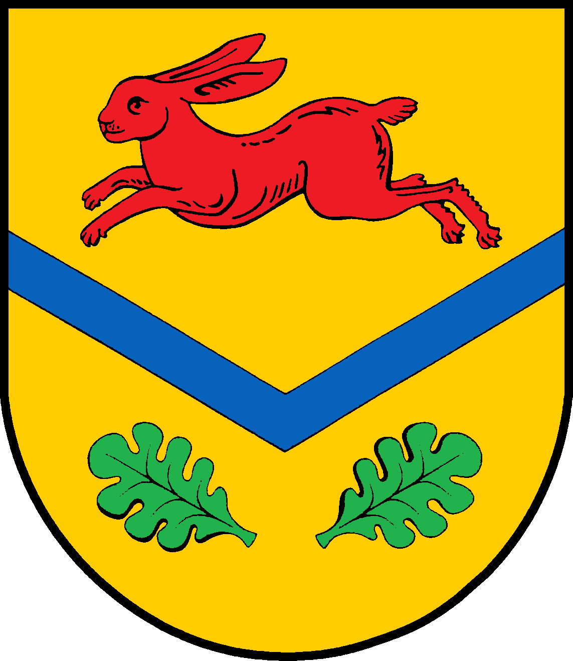 Coat of arms of the municipality Hasenkrug in Schleswig-Holstein, Germany.